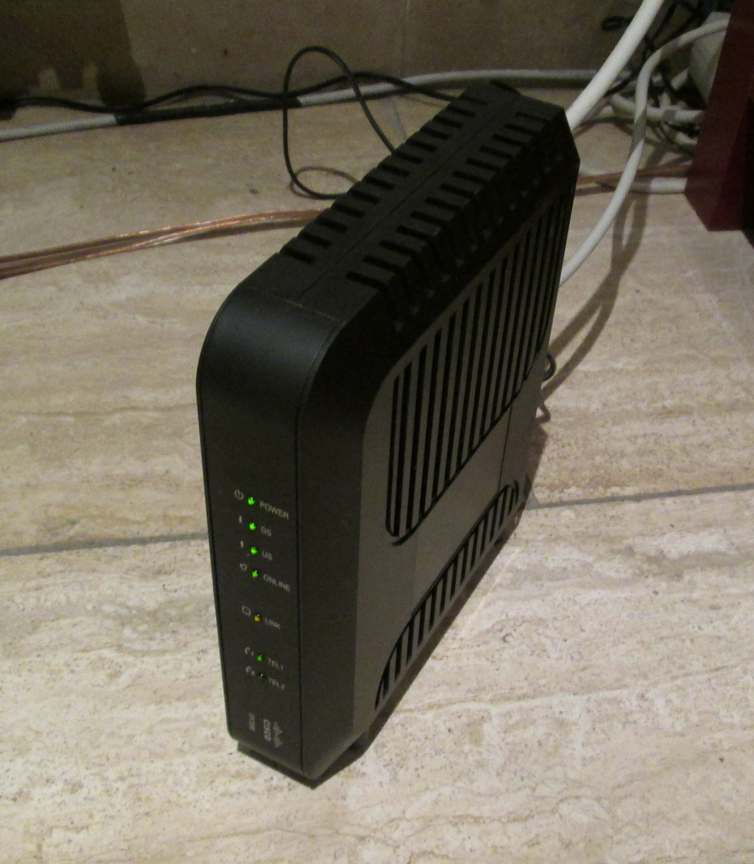 Cisco Systems Cabelmodem DOCSIS 3